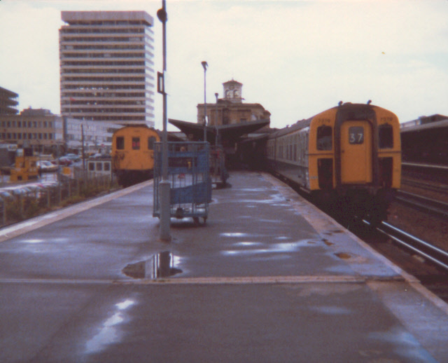 Old-style electric trains at Reading, near to Reading, Great Britain. Two trains of the 1970s in the bay platforms (4A and 4B) at Reading station. These were the only platforms at Reading to have third-rail power. The one at left is a diesel-electric unit used on services to Tonbridge, and the one at right a standard Southern Region electric unit (no. 7379) on a service to London Waterloo.